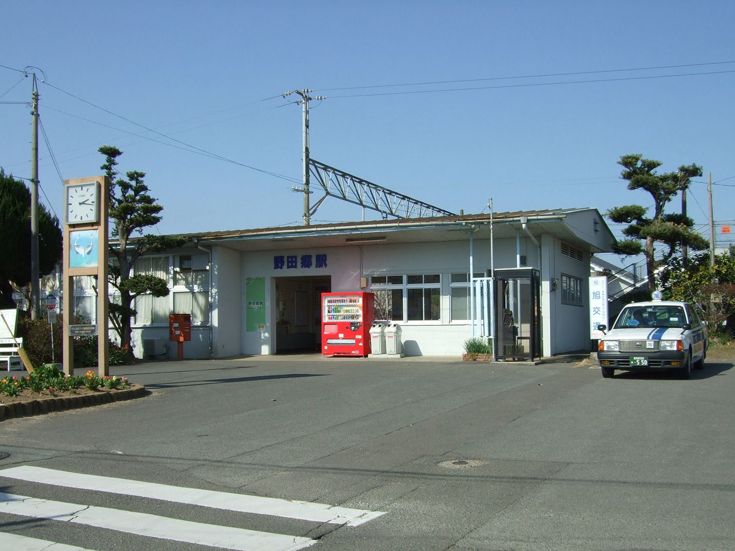 Nodago Station, Hisatsu Orange Railway, Izumi City, Kagoshima, Japan.